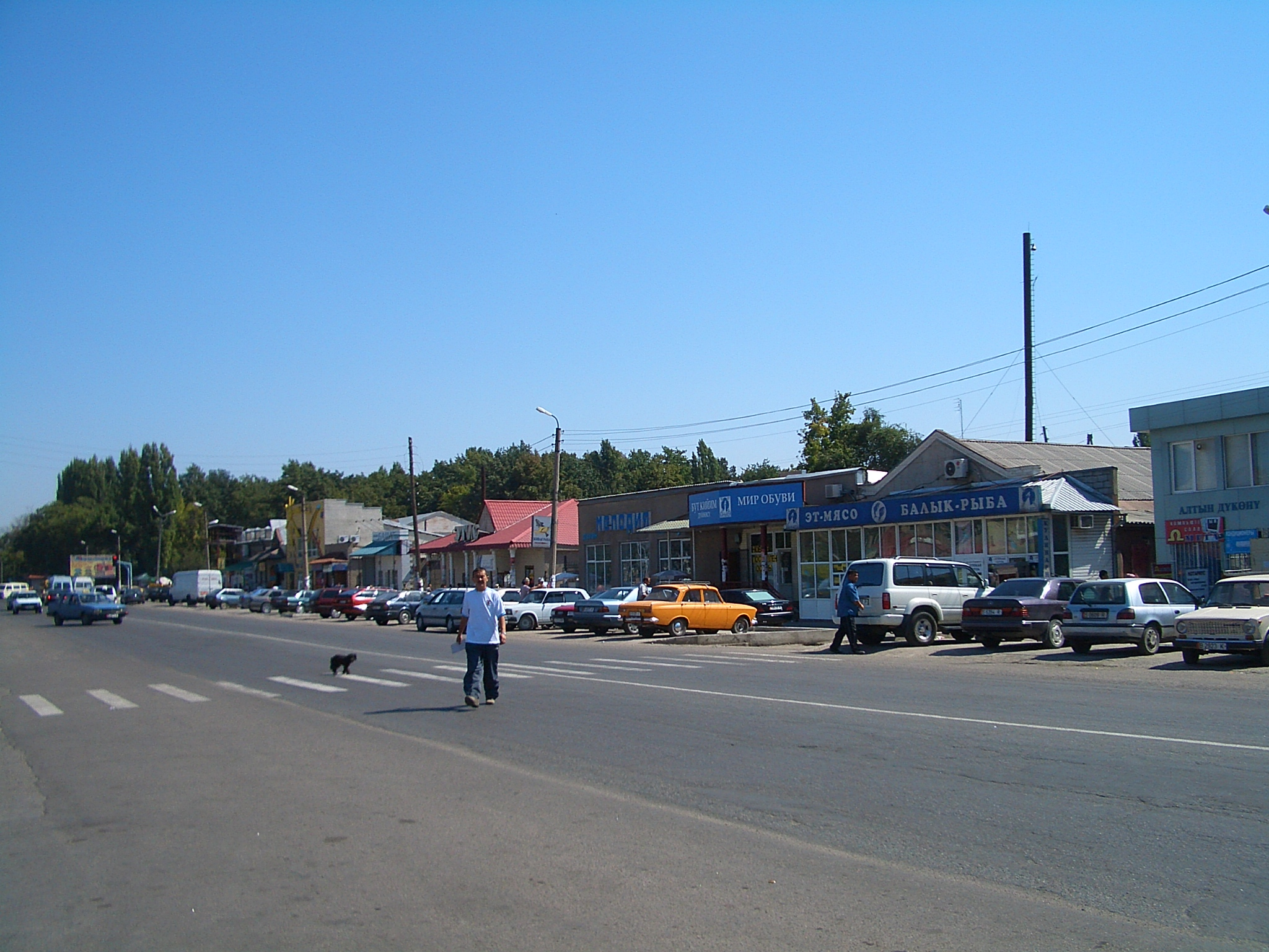 In the main street of Kant, Kyrgyzstan. (Not far from the bazaar)